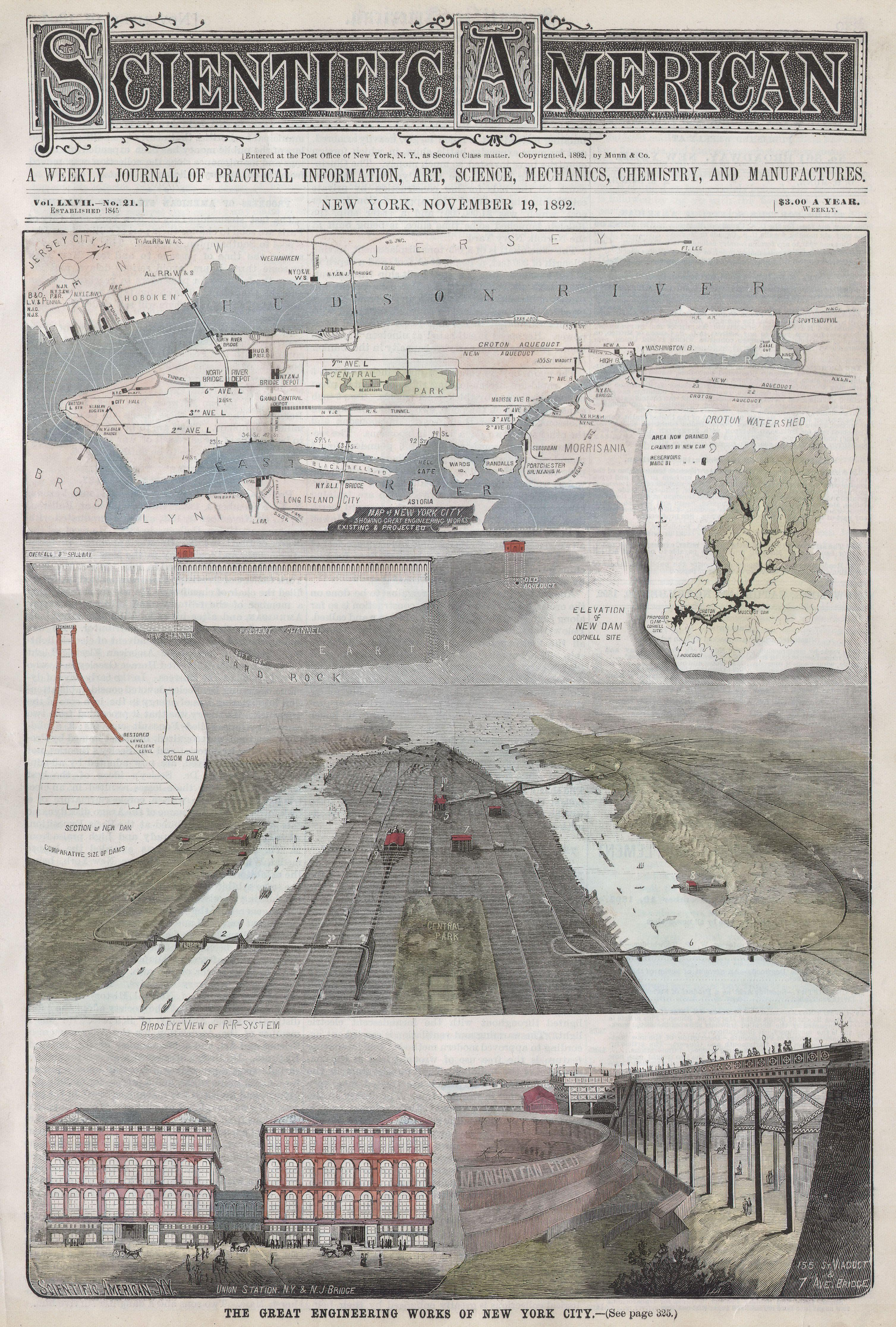 Offered here is a rare edition of Scientific American Magazine issued to praise the great engineering projects of New York City. The front cover features a map of New York City’s elevated train line – the precursor to the modern subway system, a View of Manhattan showing several important stations and bridges, and a close up of the 155th Street Viaduct with the new "Manhattan Field" (later called Polo Ground), and of the never-built Union Station on West 42nd Street. Includes the full 10 page magazine. Features projected but never built include railroad bridges to Hoboken, Weehawken, and Long Island City.